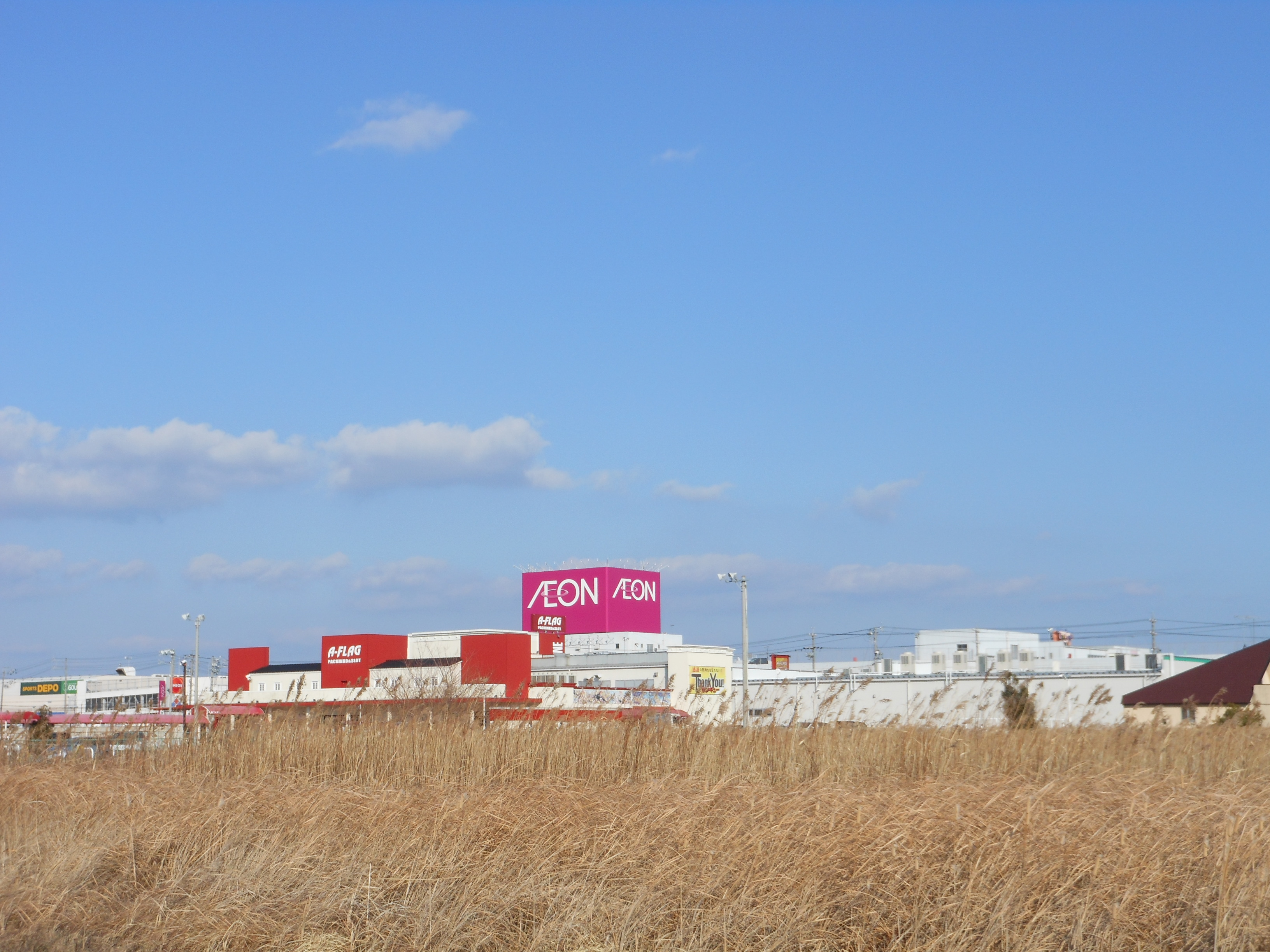 This is the ÆON Tsu-Minami Shopping Center SUNVALLEY, which is located in Tsu, Mie, Japan.